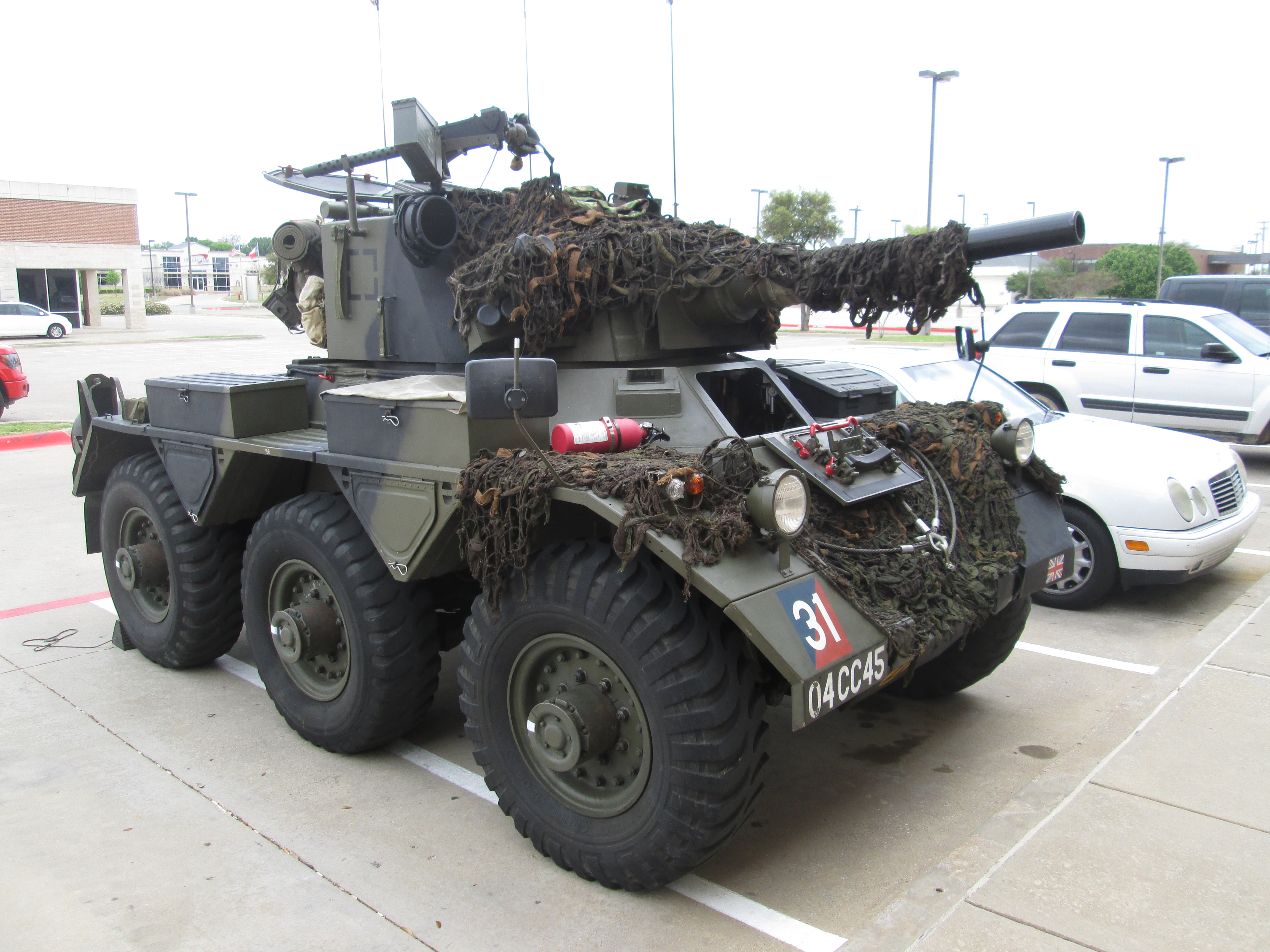 Alvis Saladin armored car now owner privately by someone in the Dallas/Fort Worth area of Texas, USA